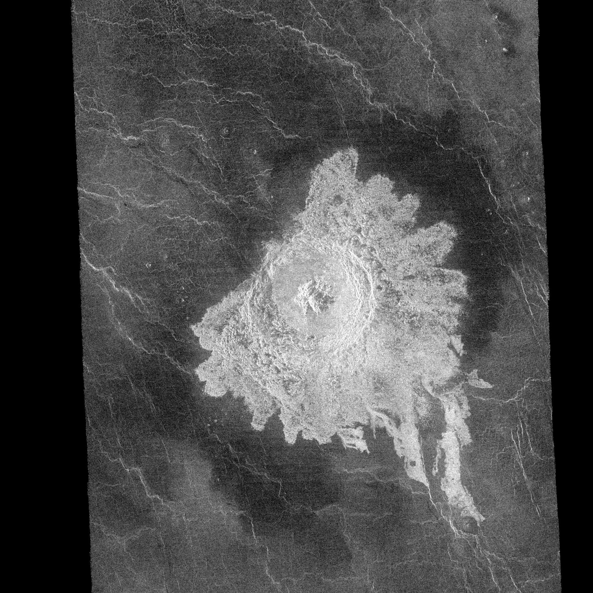 This Magellan image shows a complex crater, 31.9 kilometers (20 miles) in diameter with a circular rim, terraced walls, and central peaks, located at 20.3 degrees north latitude and 331.8 degrees east longitude. Several unusual features are evidenced in this image: large dark surface up range from the crater; lobate flows emanating from crater ejecta, and very radar-bright ejecta and floor. Aurelia has been proposed to the International Astronomical Union, Subcommittee of Planetary Nomenclature as a candidate name. Aurelia is the mother of Julius Caesar.